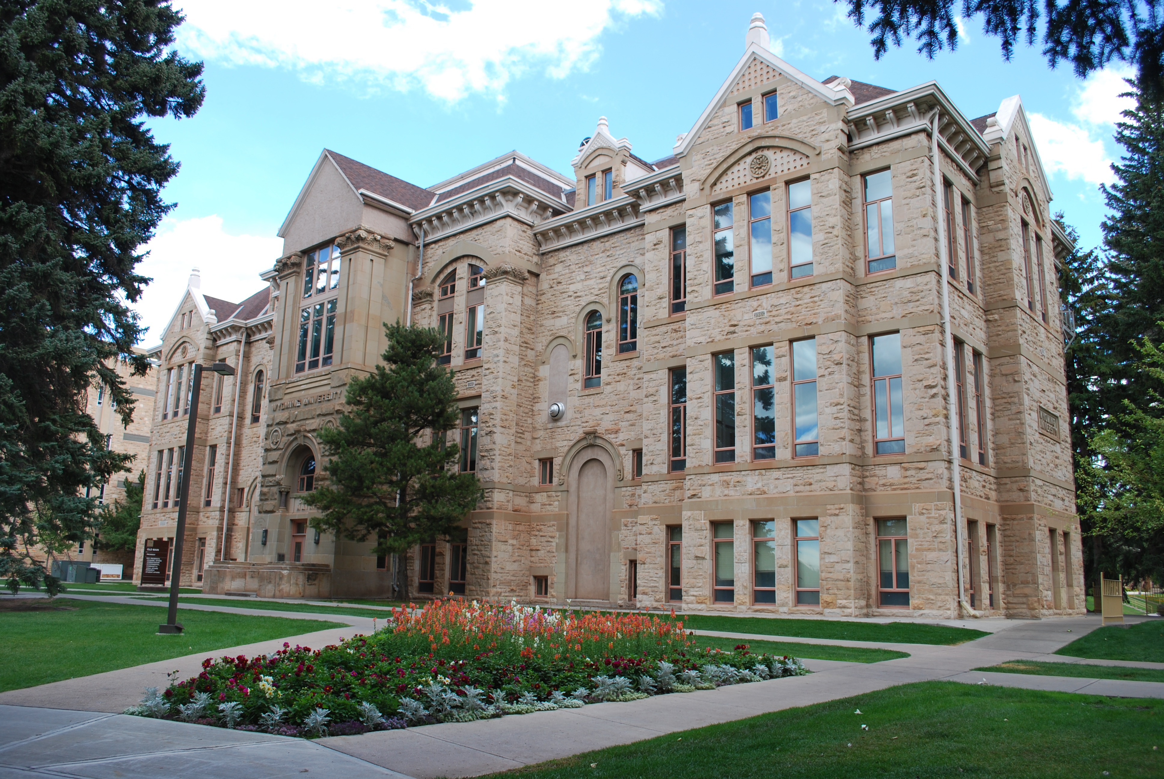 Old Main